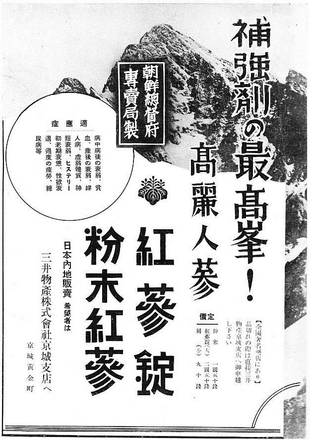 Panax ginseng advertisement in 1930s